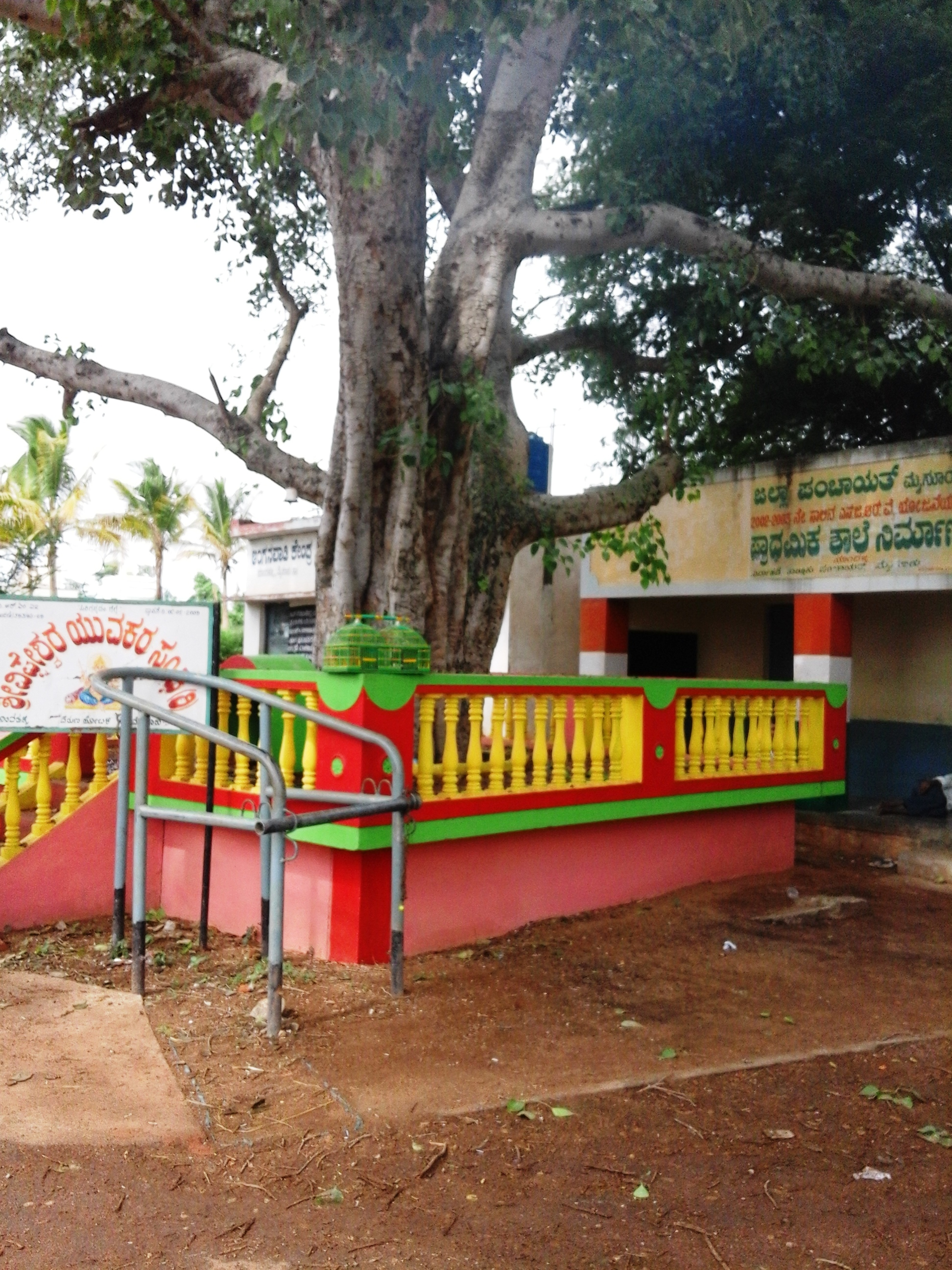 Sathgalli, Mysore city, Karnataka province, India.